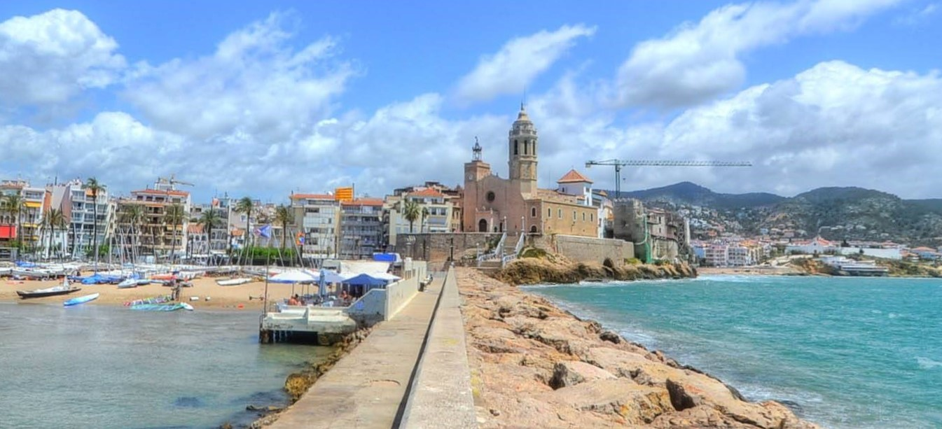 Beach and Monastery of Sitges